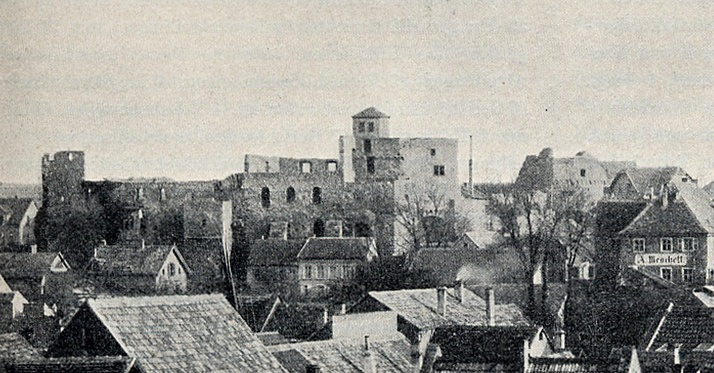 Schloss Alzey als Ruine vor dem Wiederaufbau, 1905